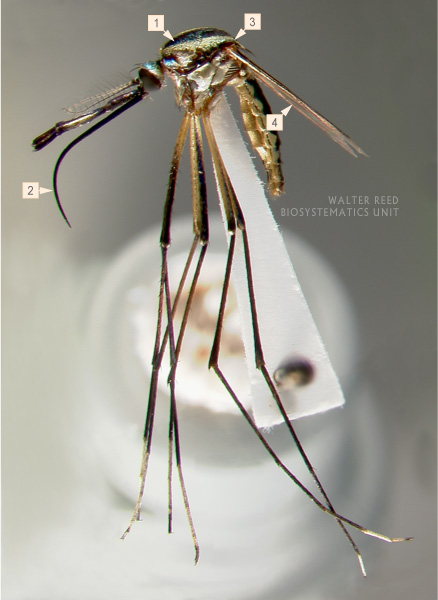 The mosquito Toxorhynchites rutilus, a non-biting species with predatory larvae. 1. Body covered with brightly colored iridescent scales 2. Proboscis tapering and strongly bent downward 3. Scutellum 4. Wing